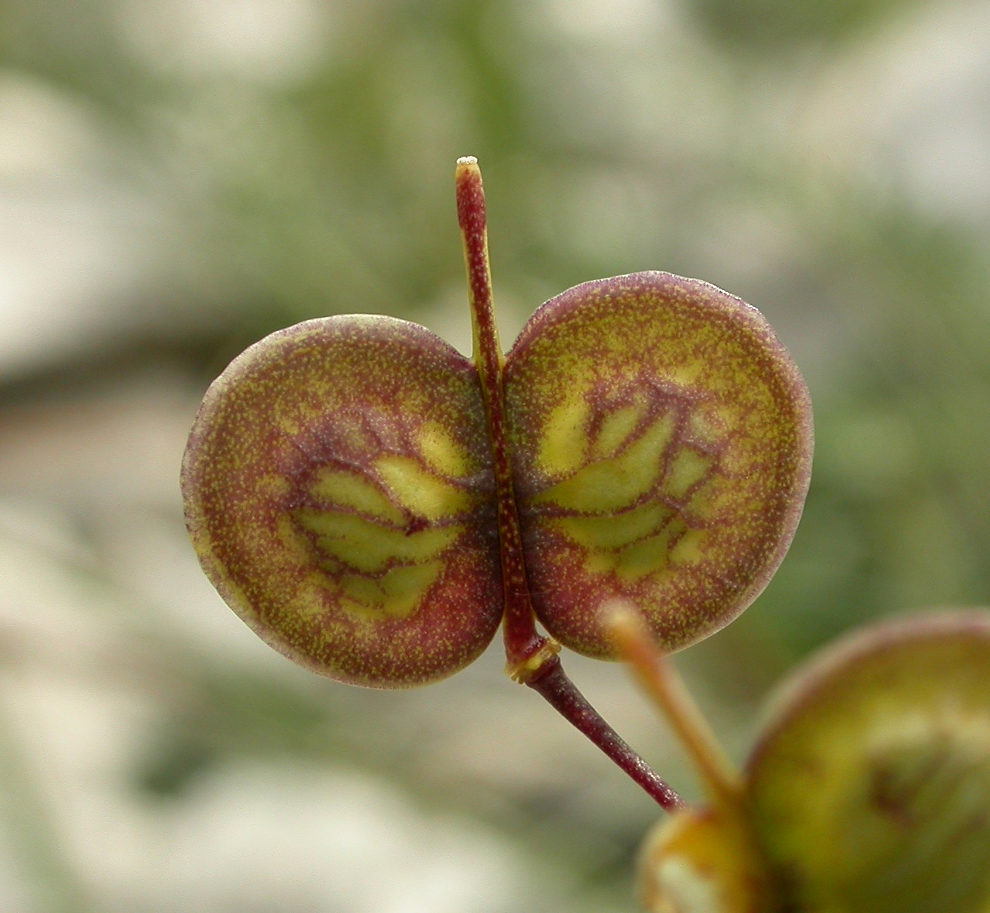 Silicula of Biscutella laevigata, Triglav, Slovenia